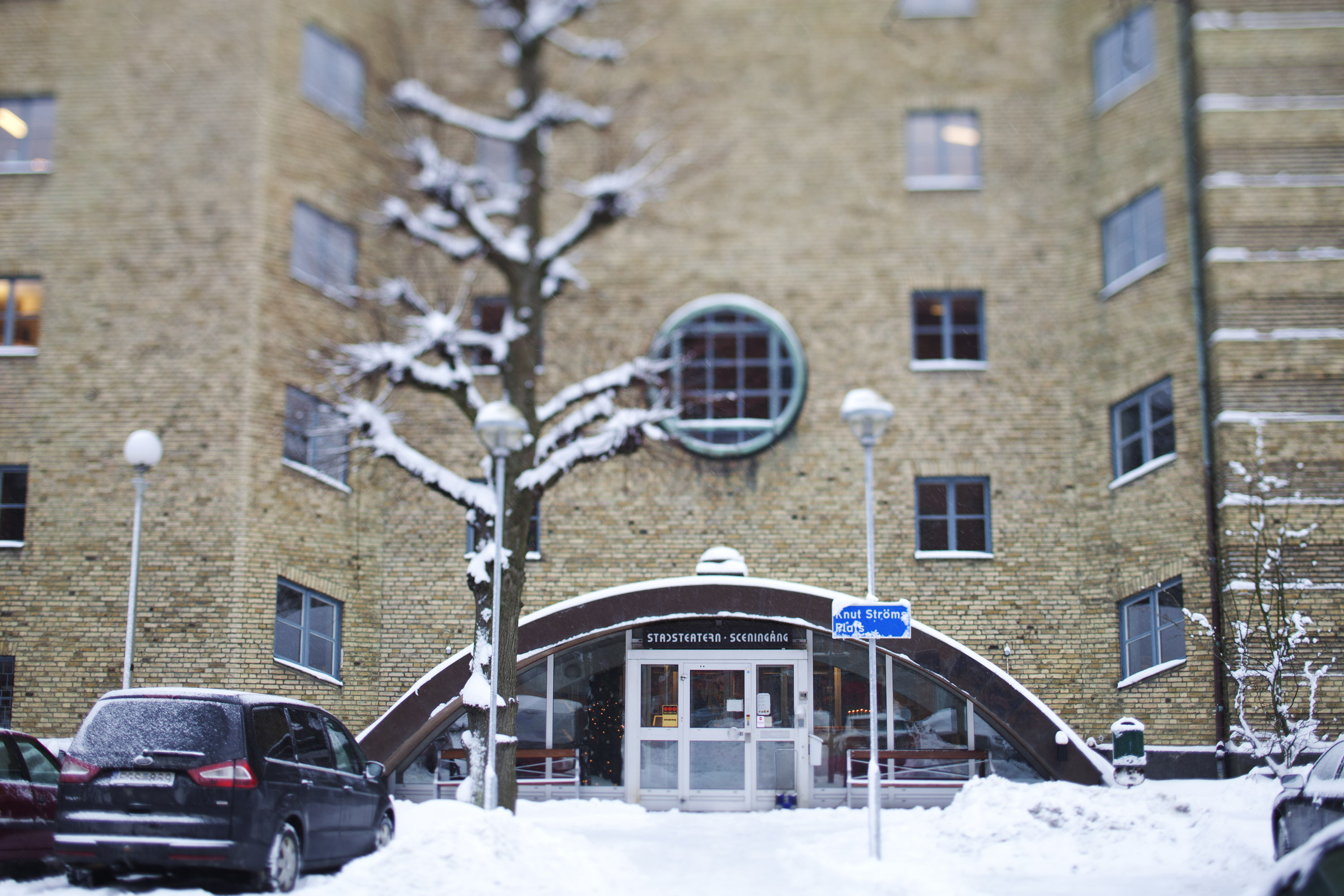 Rear entrance for scene workers, as seen from Berzeliigatan.